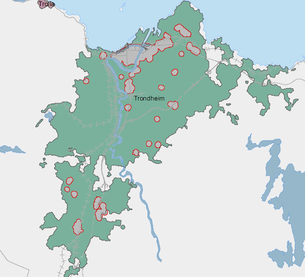 Urban area of Trondheim